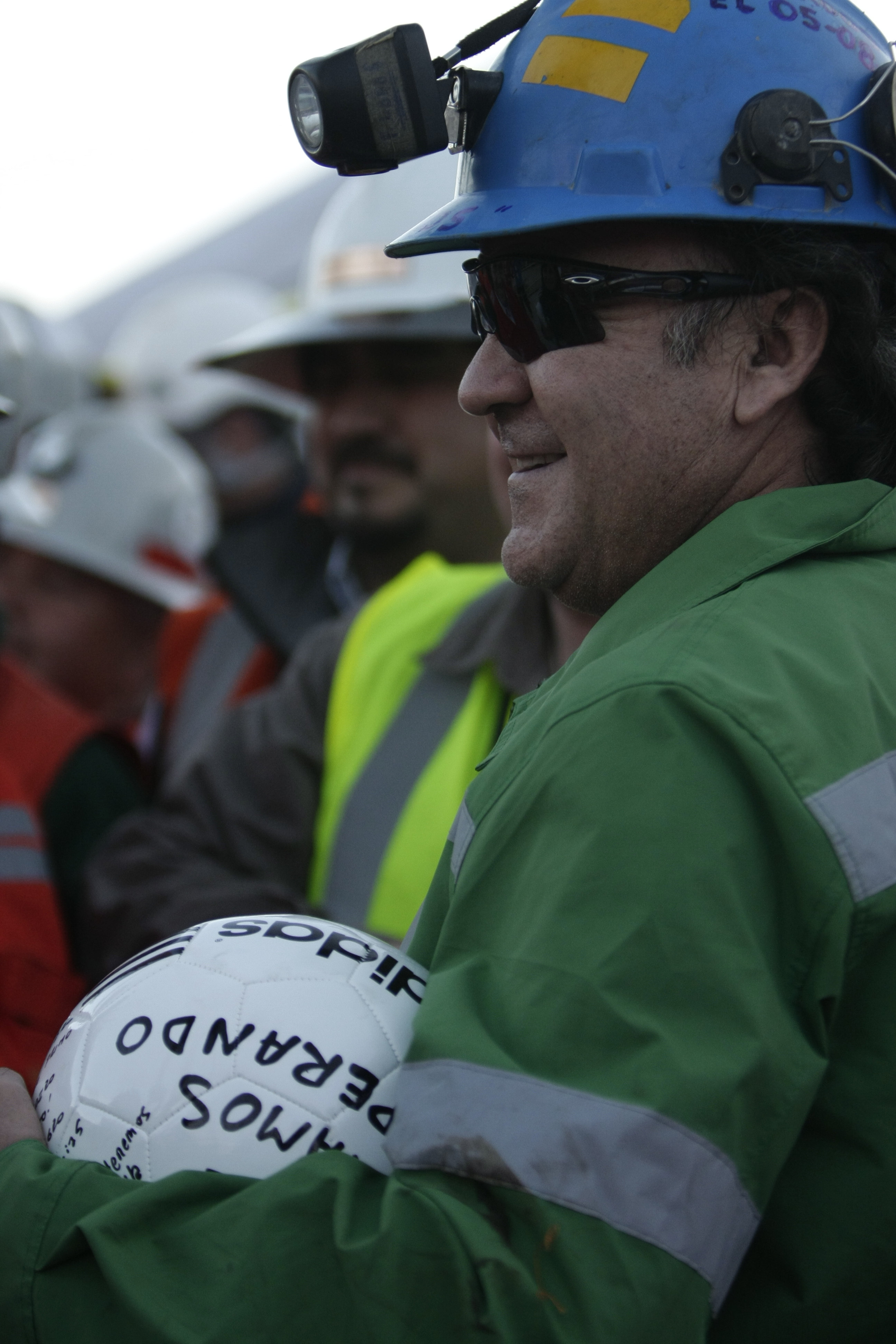 Franklin Lobos holding a gift soccer ball after rescue from San Jose Mine near Copiapo, Chile